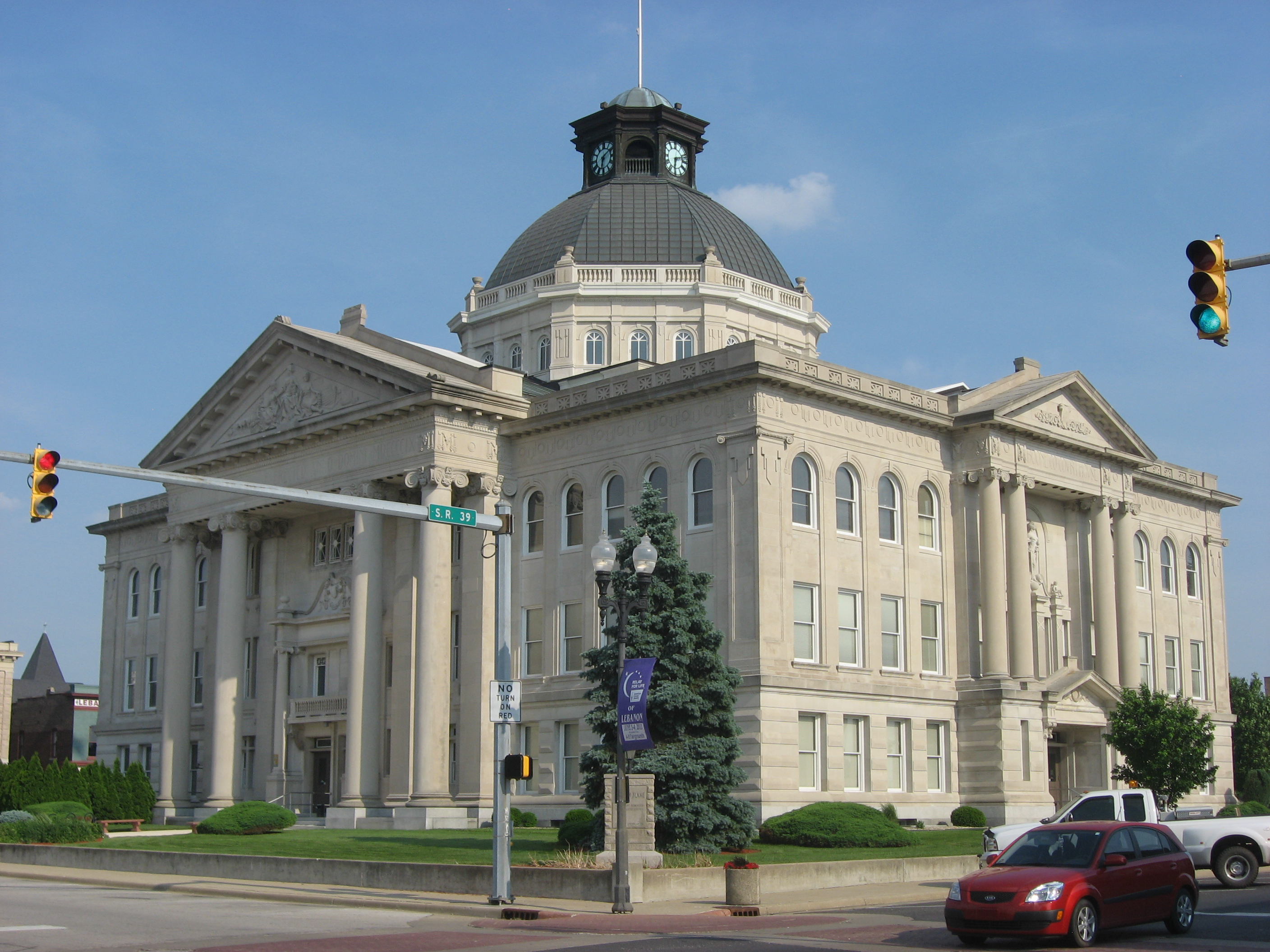 Northern and western sides of the Boone County Courthouse, located on Courthouse Square in downtown Lebanon, Indiana, United States. Built in 1909, it is listed on the National Register of Historic Places.